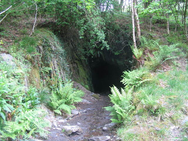 Adit, Dolgoch The Talyllyn Railway was built to carry slate from the Bryn Eglwys quarry above Nant Gwernol down to Tywyn. There was briefly a small slate working at Dolgoch, of which this is one of the remains.